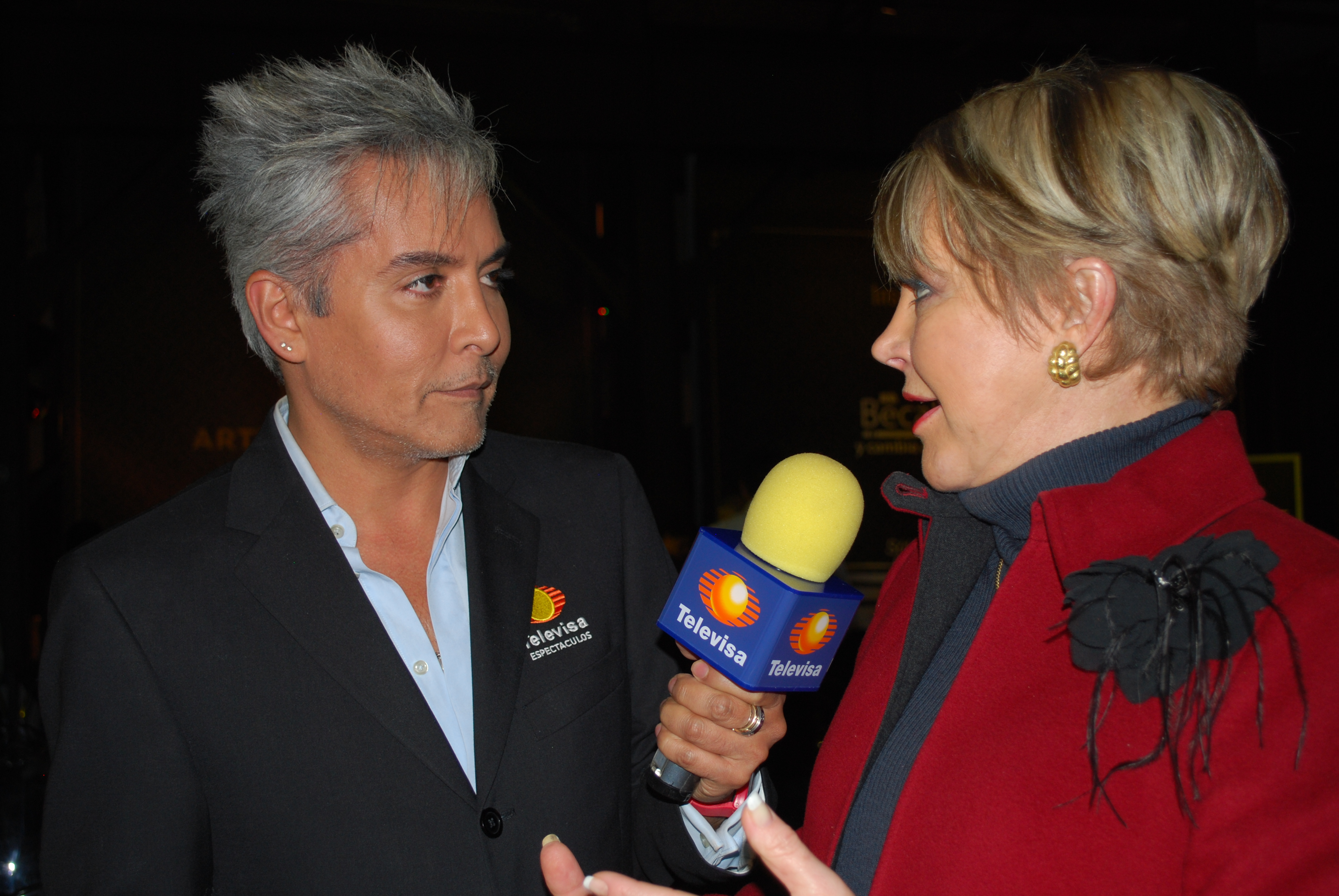 Lolita Ayala being interviewed by Televisa at the Arte en Barricas 2012 event of Herradura Tequila at the Centro Cultural Indianilla in Mexico City